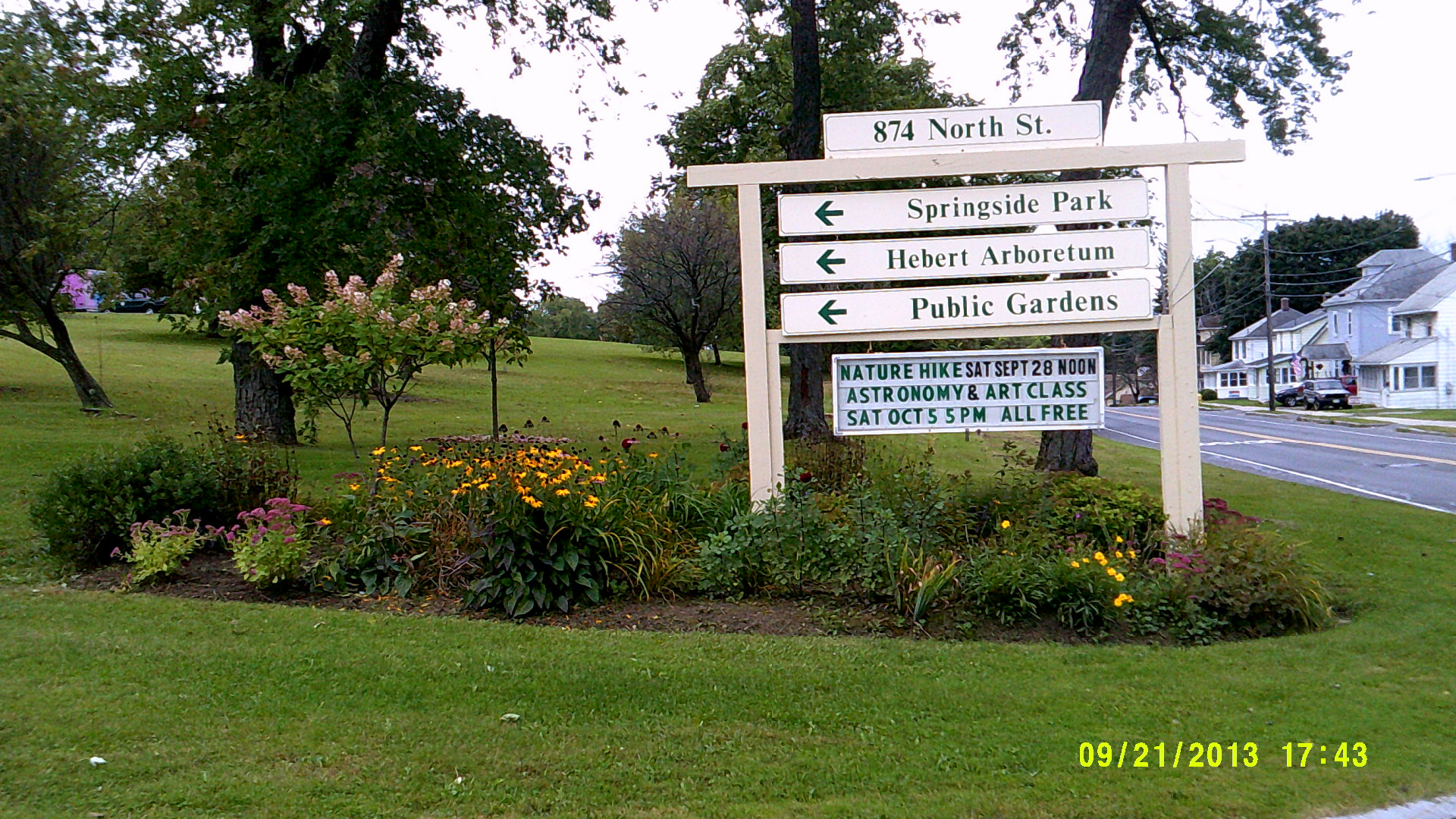 874 North St. Pittsfield